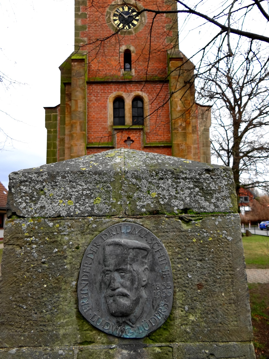 Memorial of Ludwig Lüders in Leiferde (Braunschweig)